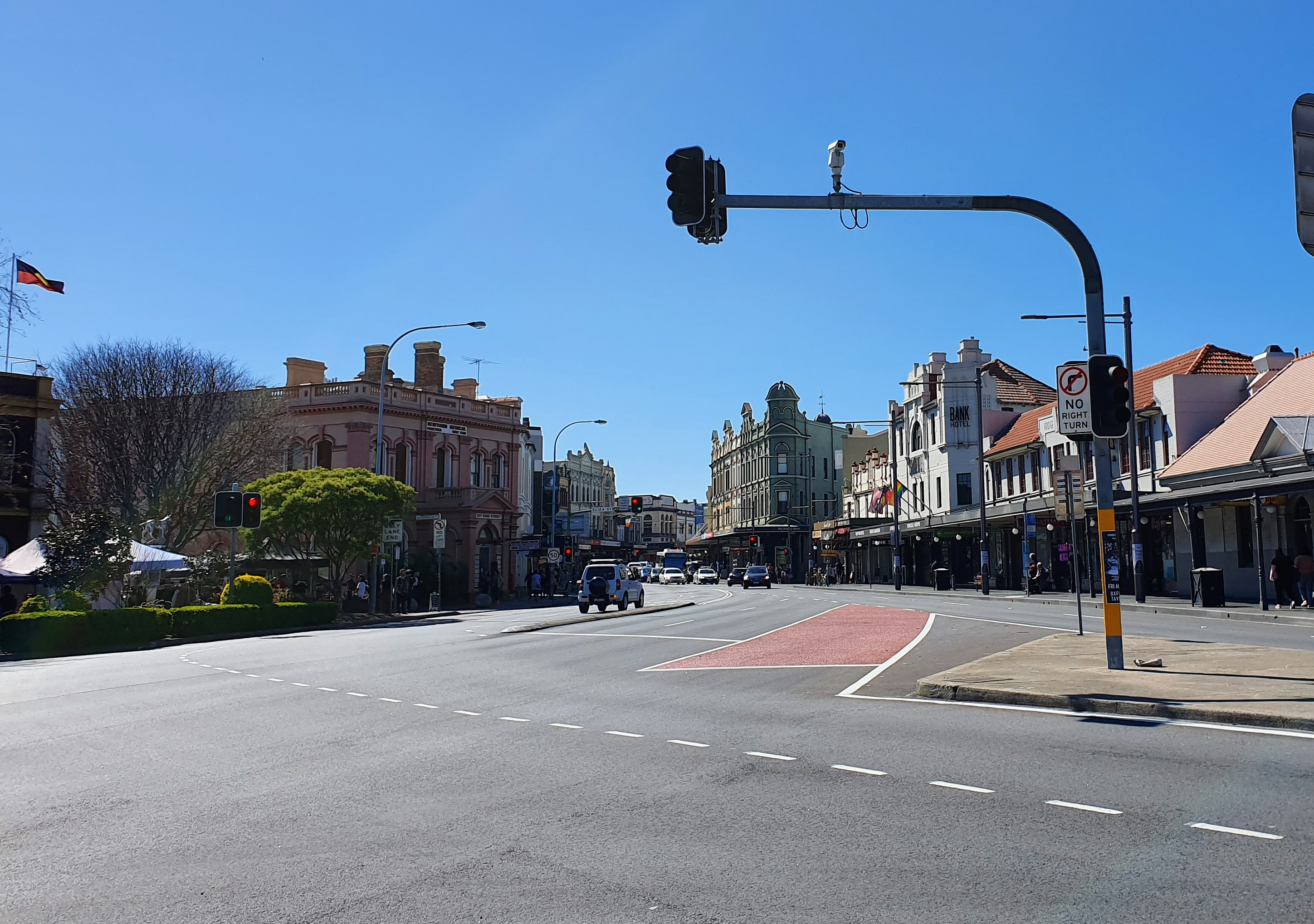 Shot of the intersection between King Street and Enmore Road in Newtown, as of August 2019